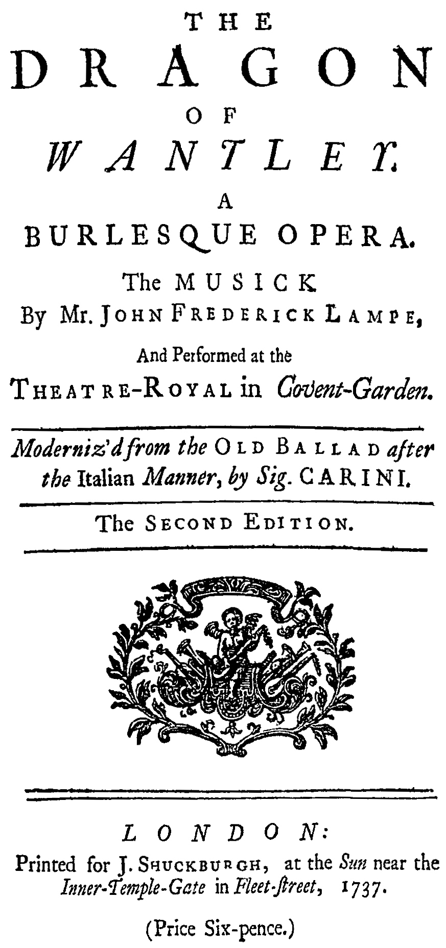 Lampe - The Dragon of Wantley - title page of the libretto, second edition, London 1737